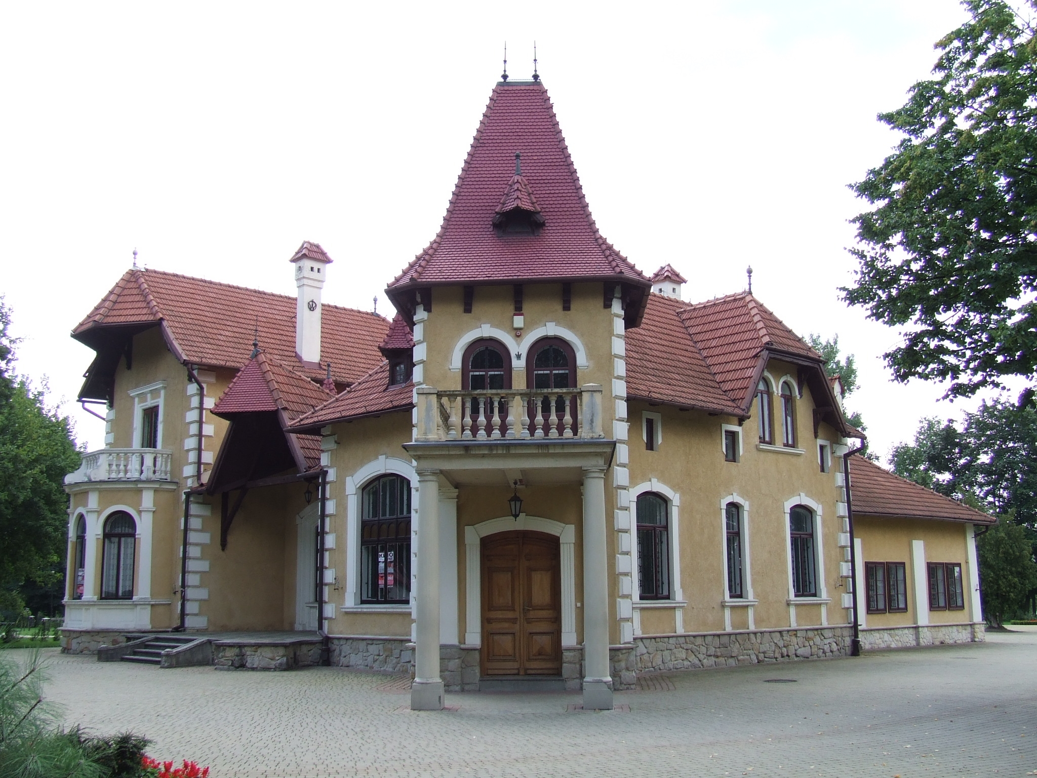 Oborskis' Palace in Mielec, Poland